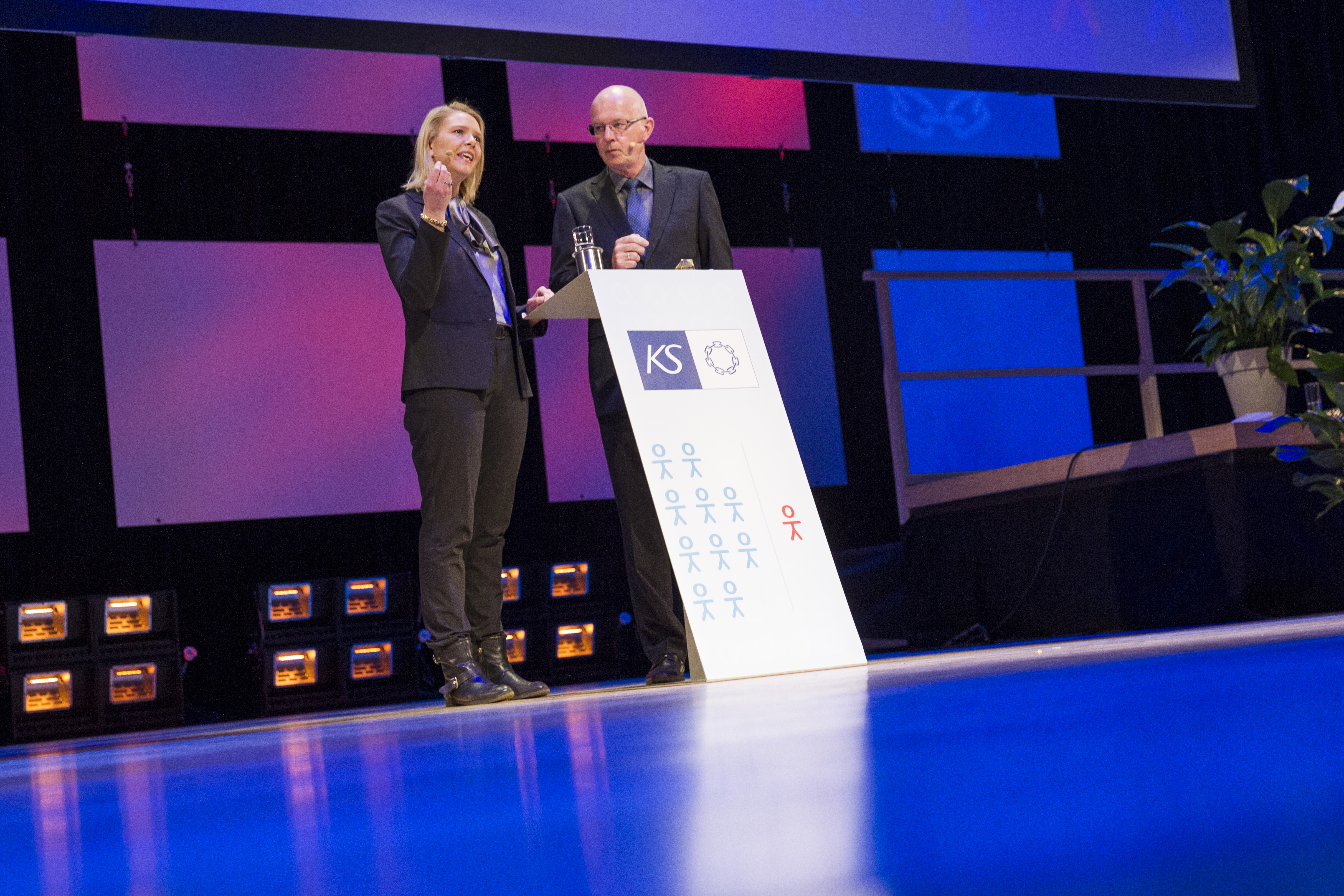 Sylvi Listhaug speaking to the Norwegian Association of Local and Regional Authorities (KS)